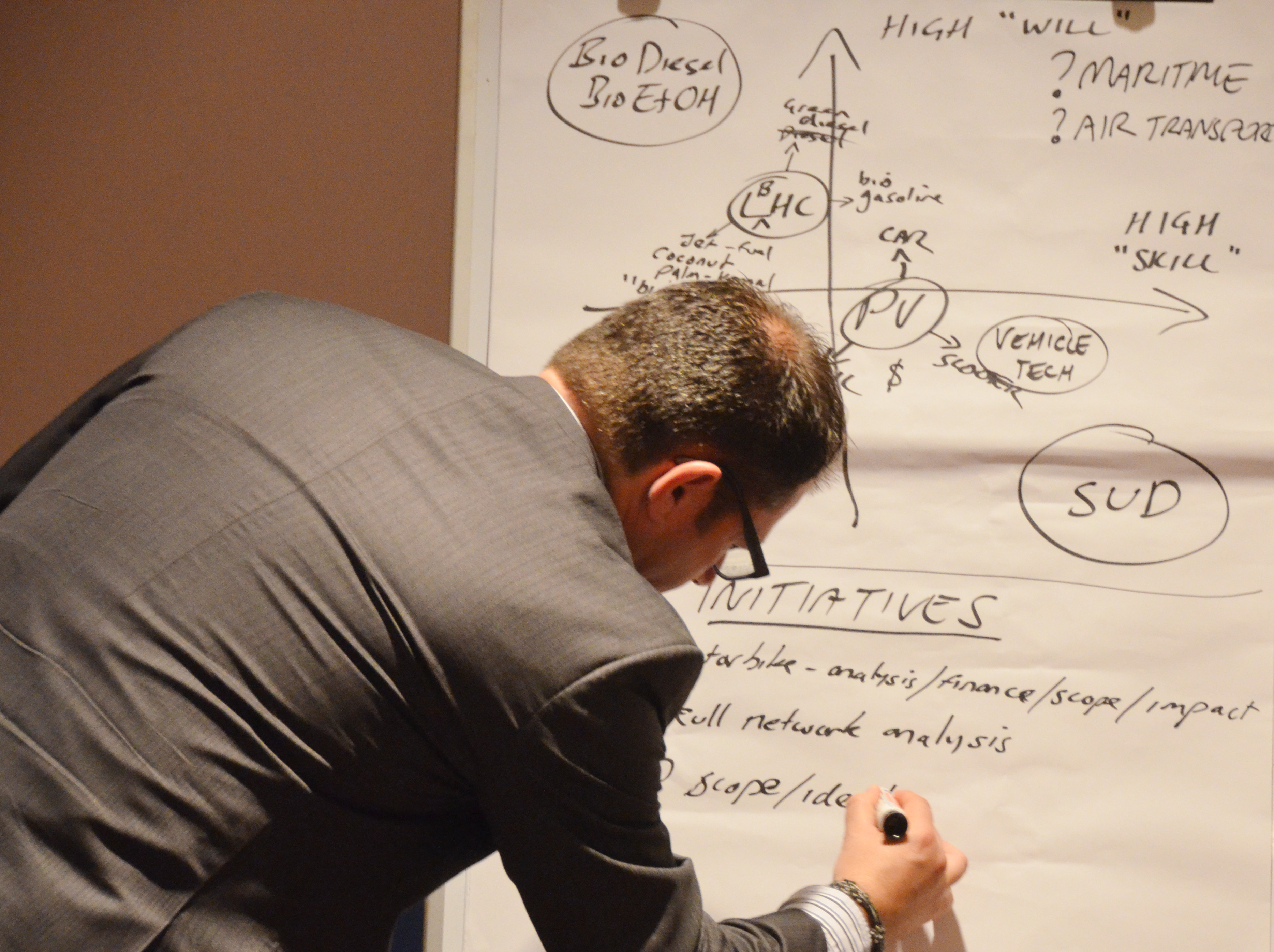 Nugroho Indrio, Senior advisor to Minister of Transportation, Republic of Indonesia Chaired "Transportation solution initiatives Group" during SDSN Regional Workshop (SEA, Indonesia and Australia / Pacific) - Jakarta 26 November 2014